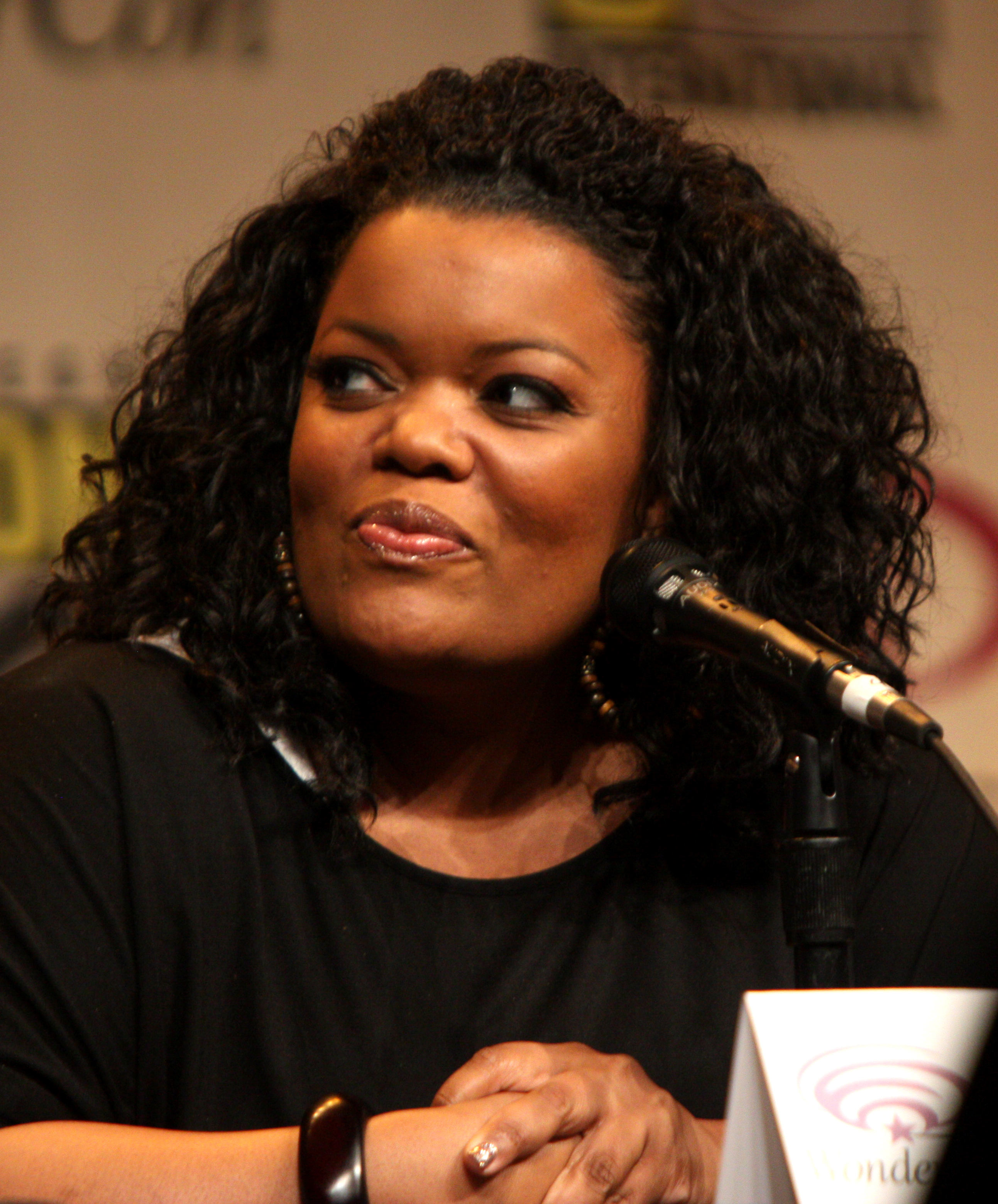 Yvette Nicole Brown speaking at Wondercon 2012 in Anaheim, California on March 18, 2012.